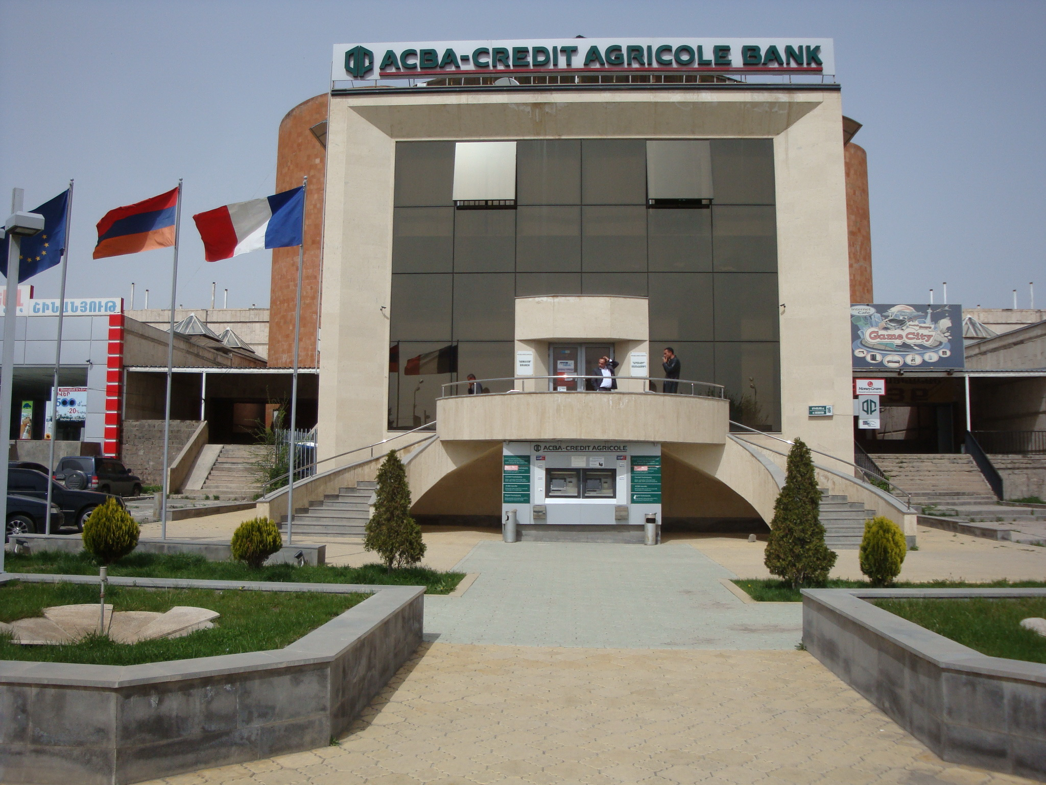 ACBA-Credit Agricole Bank, "Armavir" Branch